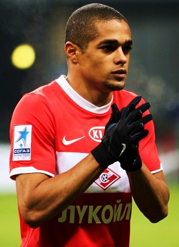 Welliton